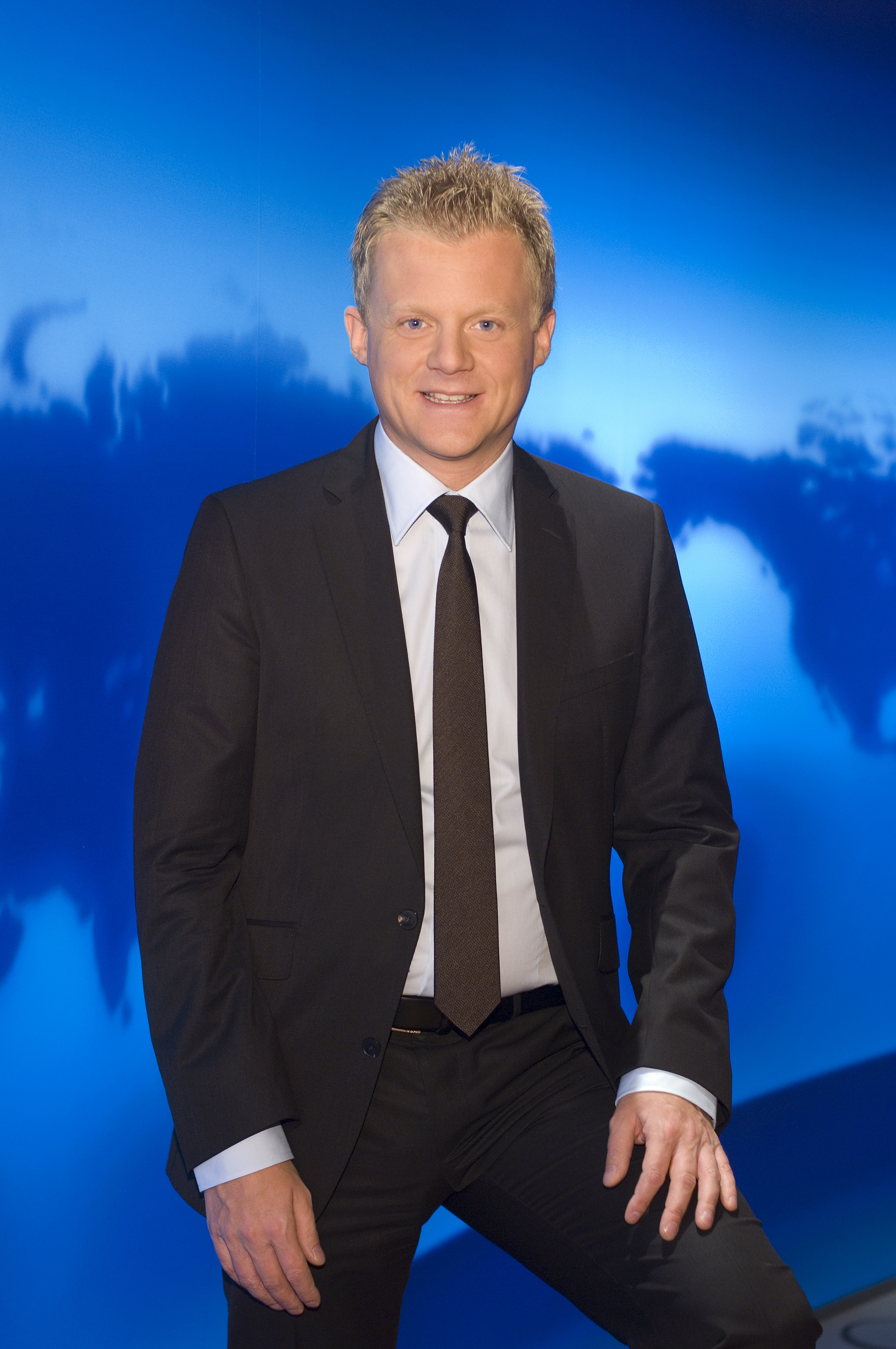 Marc Bator (*1972), anchorman of German news broadcast "Tagesschau"